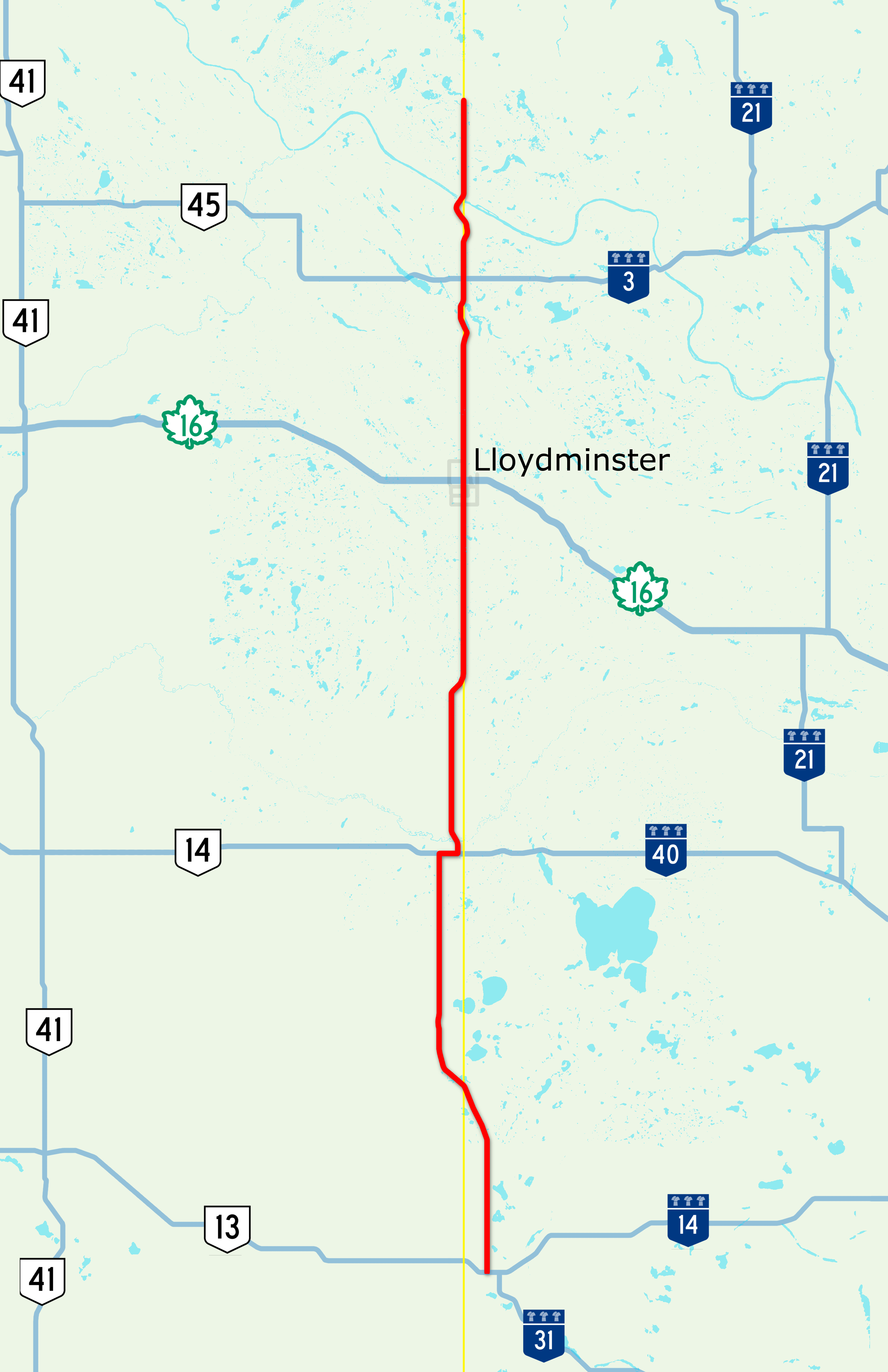 Map of Highway 17 on the border of Alberta and Saskatchewan in western Canada, created with Open Street Map.